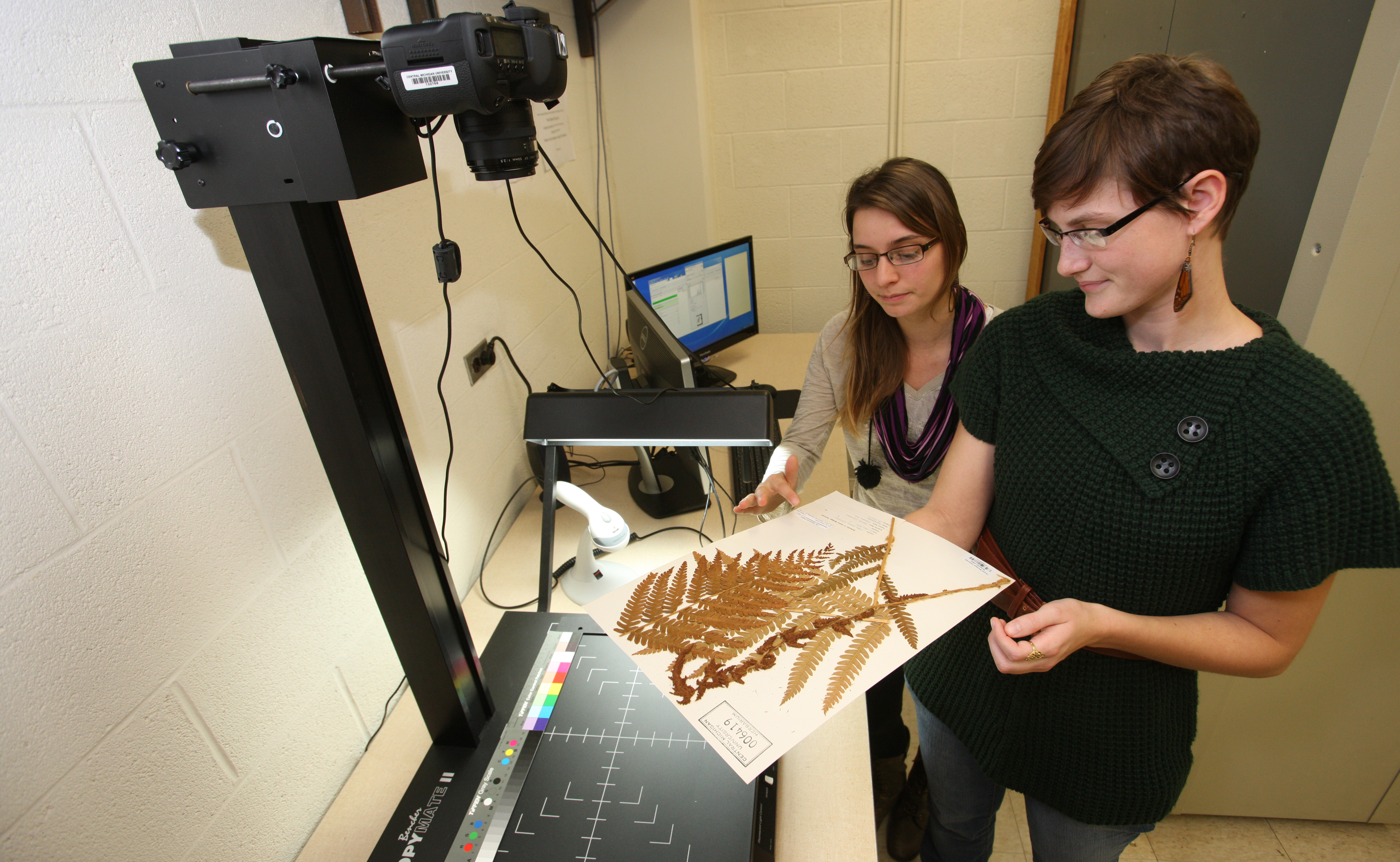 iDigBio Page photos